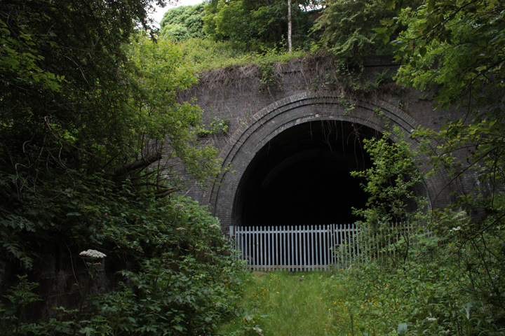 The northern mouth of the railway tunnel that passes beneath the town of Dudley, England, taken in 2011. The railway track is now overgrown, with metal gates barring access into the tunnel.